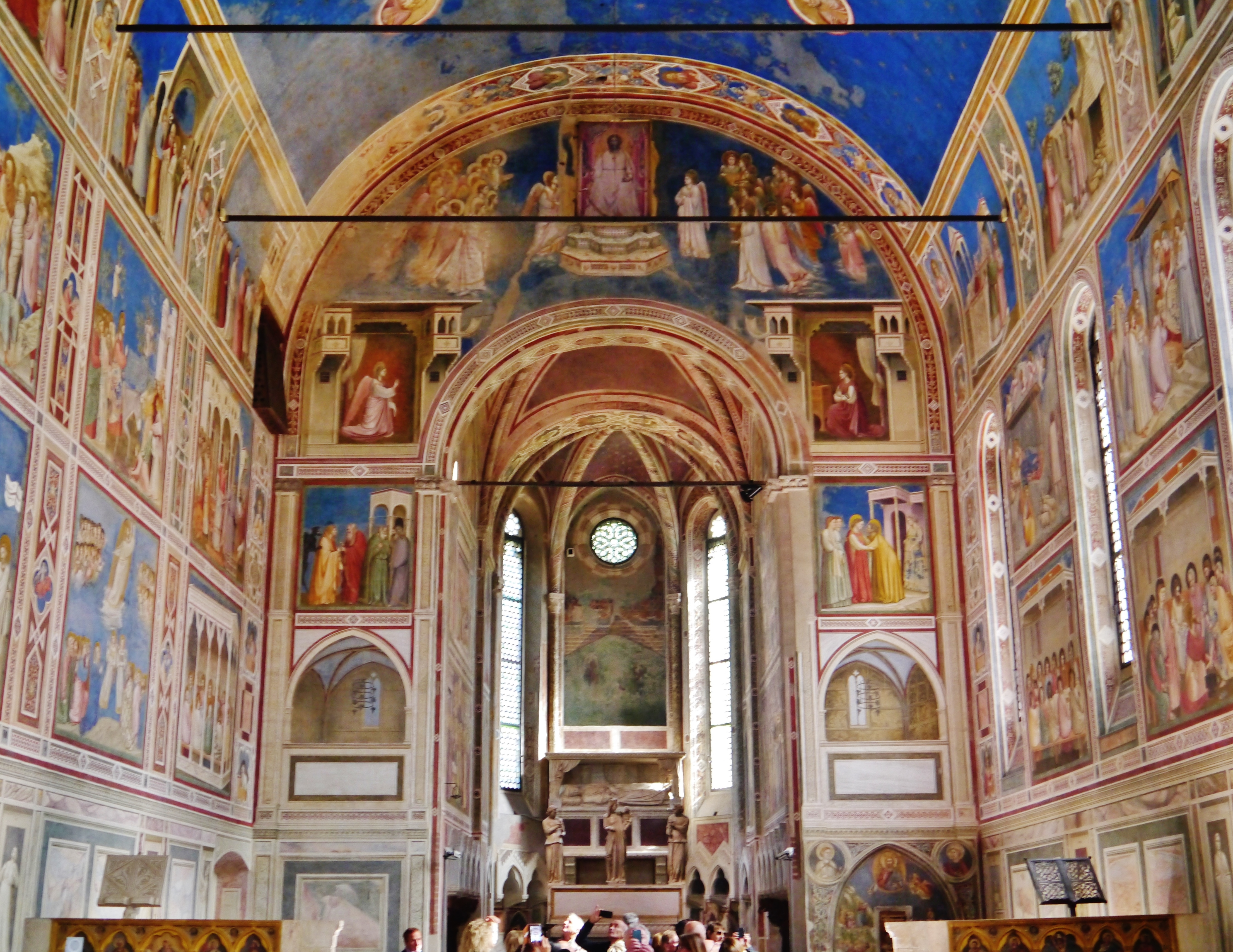 Nave of the Scrovegni Chapel, Padua, Province of Padua, Region of Veneto, Italy